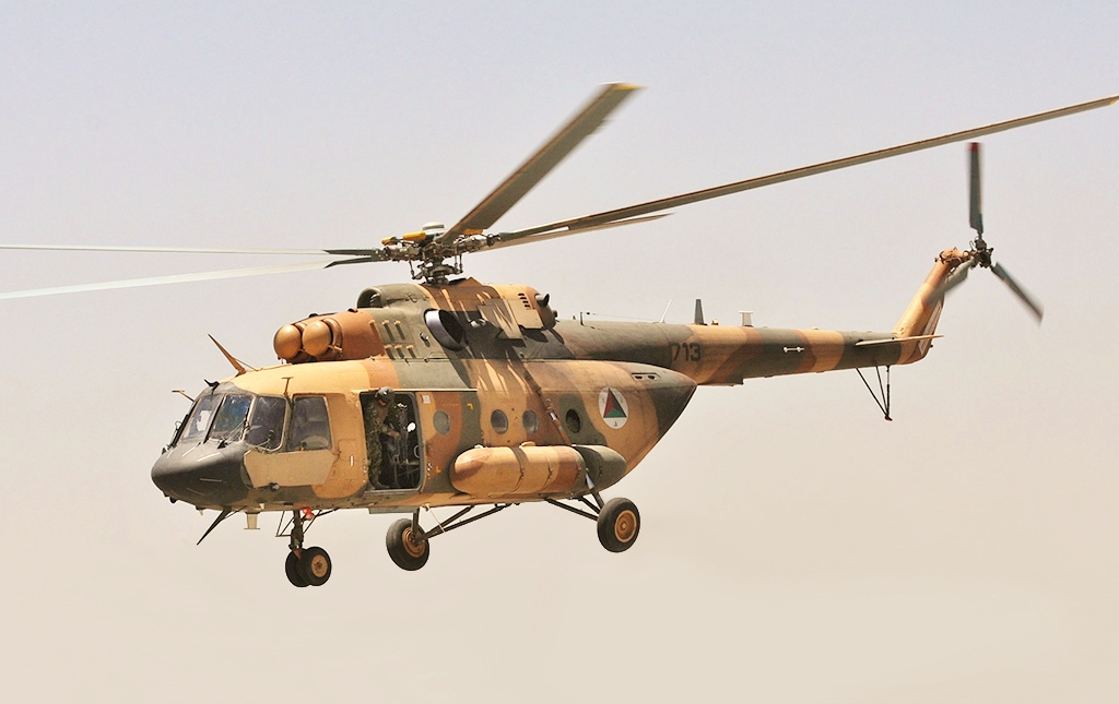 Staff Sgt. Todd PouliotAn Afghan Mi-17 helicopter flown by Lt. Col. Bakhtullah, 377th Afghan Air Force Squadron commander, takes off for an air-assault training flight, May 29 from Kabul International Airport, Afghanistan. Bakhtullah and the squadronâ€™s standardization officer, Maj. Farid, are participating in an air-assault planning certification course mentored by 10th Combat Aviation Brigade advisers in preparation to begin instructing their aviators in air mission planning procedures.